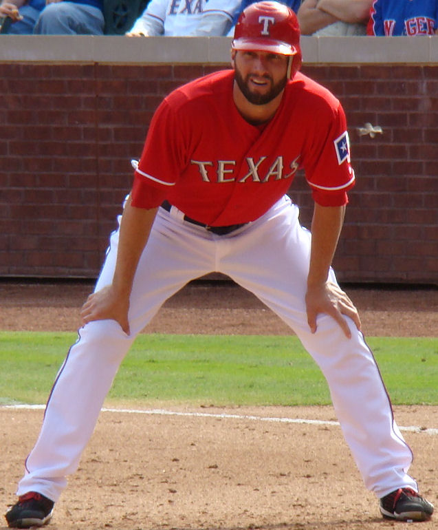 Jeff Francoeur, Texas Rangers player.